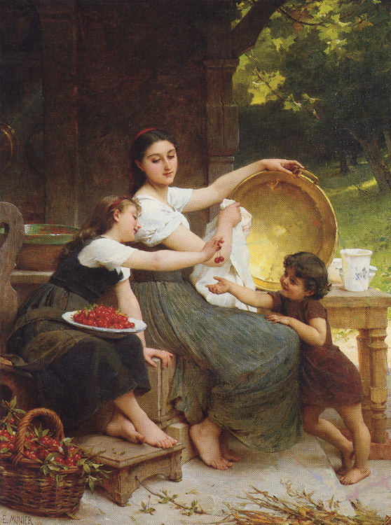 Les Confitures